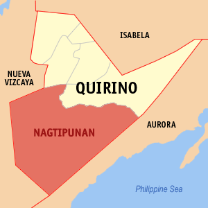 Map of Quirino showing the location of Nagtipunan